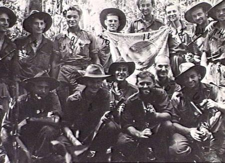 Members of No. 6 Section, B Troop, Australian 2/4th Cavalry Commando Squadron on Tarakan Island. Commanded by SX21834 Lieutenant (LT) H M Stanford (5) displaying one of their trophies on their return to camp from a patrol through enemy territory. Gtoup includes three members of 2/24 Australian Infantry Battalion. Front row, left to right : NX79617 TROOPER (TPR) L. A. JAMIESON unidentified NX143944 LANCE CORPORAL (L CPL) A. C. GATES (big smile) NX48752 TPR S B MALONE (foreward) LT STANFORD NX130040 TPR R B BROWN.